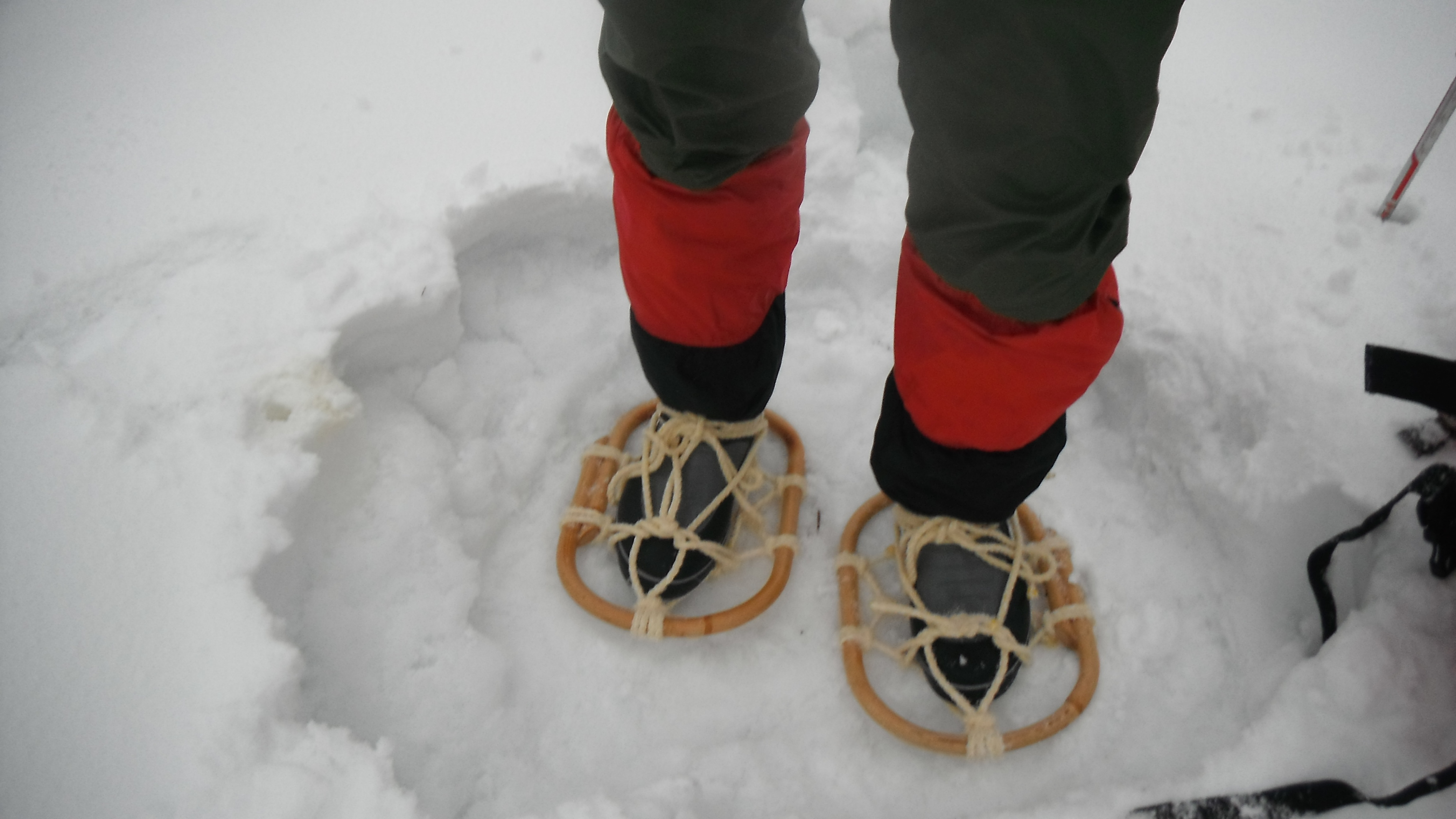 Kanjiki (Japanese snowshoe) made with toneriko (fraxinus) tree, in Niigata area